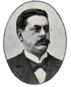 Portrait of the Swedish physician Gustaf Wennerström.